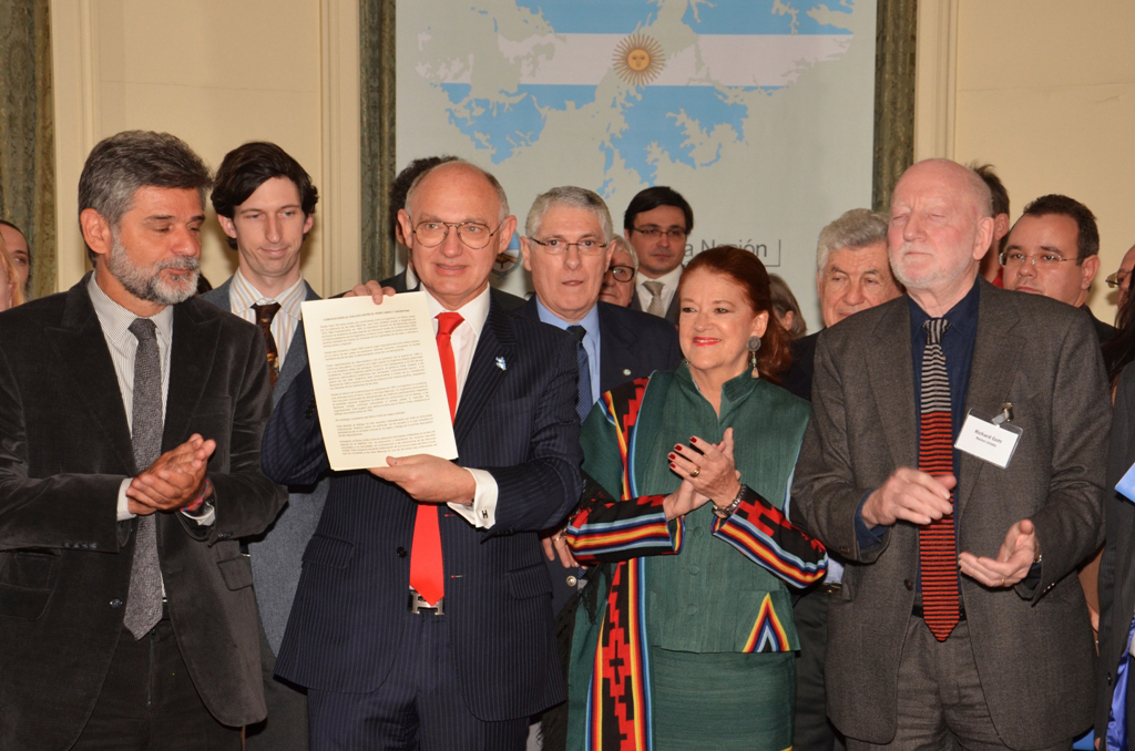 Londres Febrero 6 de 2013. Destacadas personalidades de la política y la cultura de numerosos países de Europa mantuvieron esta mañana en Londres una reunión sin precedentes con el canciller Héctor Timerman y suscribieron una Declaración convocando al diálogo entre la Argentina y el Reino Unido para resolver en forma pacífica y definitiva la disputa de soberanía por las Islas Malvinas